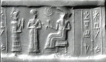 Cylinder seal and modern impression Presentation scene,ca. 2000–1750 B.C. Isin-Larsa period. Iran, Luristan, Surkh Dum